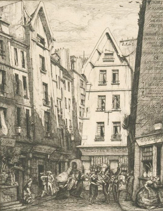 Rue Pirouette (Paris) by Charles Meryon (1821-1868).